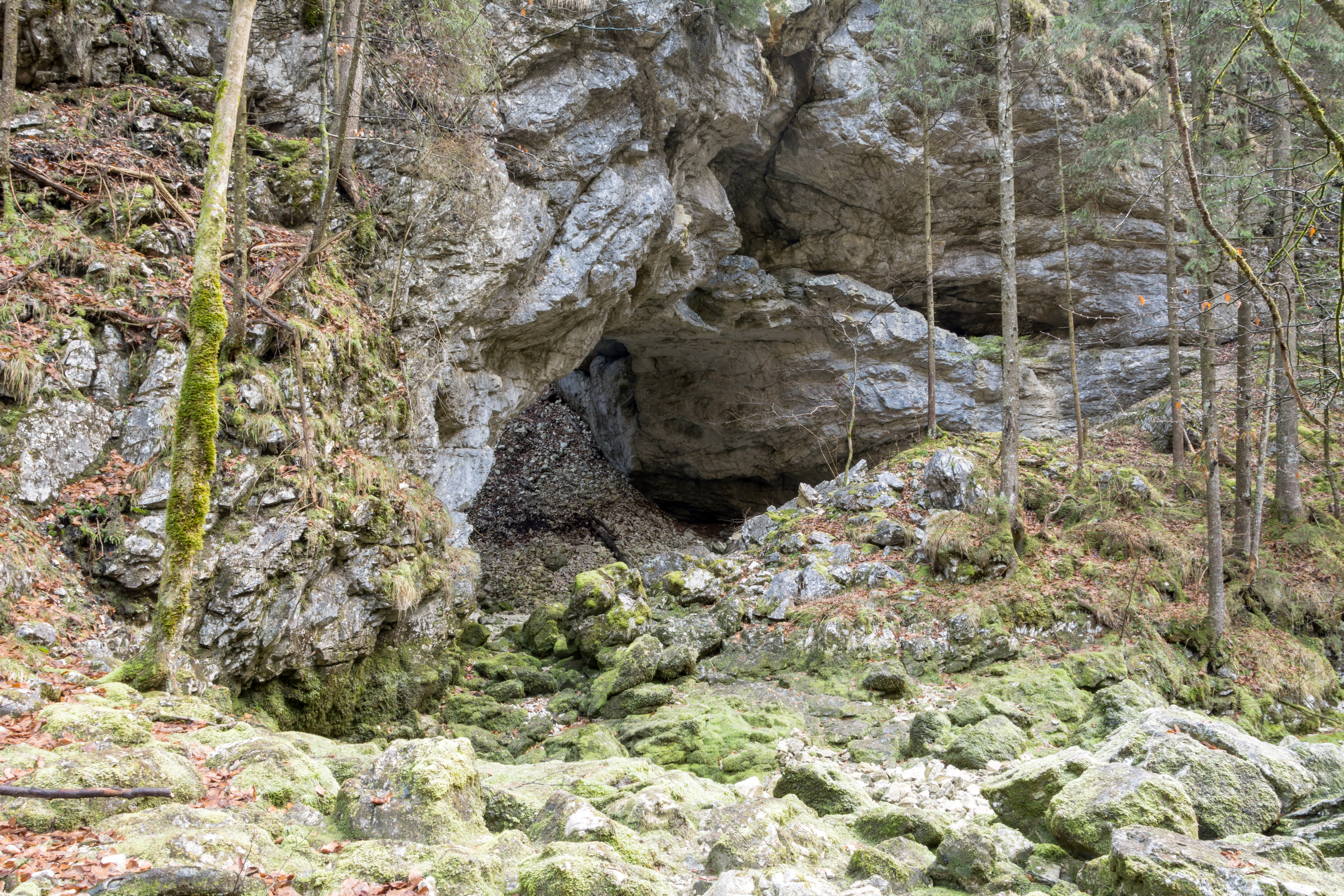 The "Teufelskirche" which is an stone arch above a karst spring in the Sengsengebirge is protected as natural monument. This media shows the natural monument in Upper Austria with the ID nd268 (Teufelskirche im vorderen Rettenbachtal).